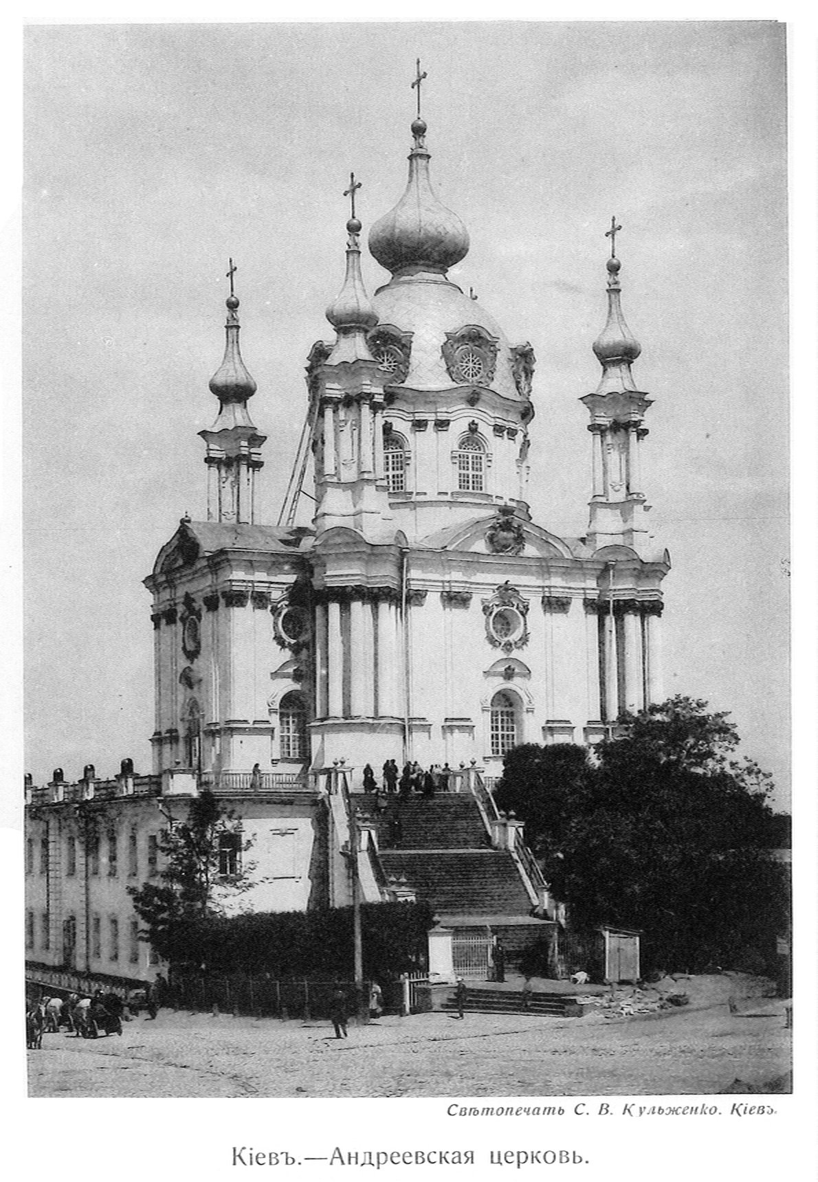 Types of Kiev. [Album phototypes]. Kiev: Svetopechat Kulzhenko S. V.